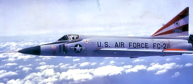 526th Fighter-Interceptor Squadron - Convair F-102A-65-CO Delta Dagge - 56-1211